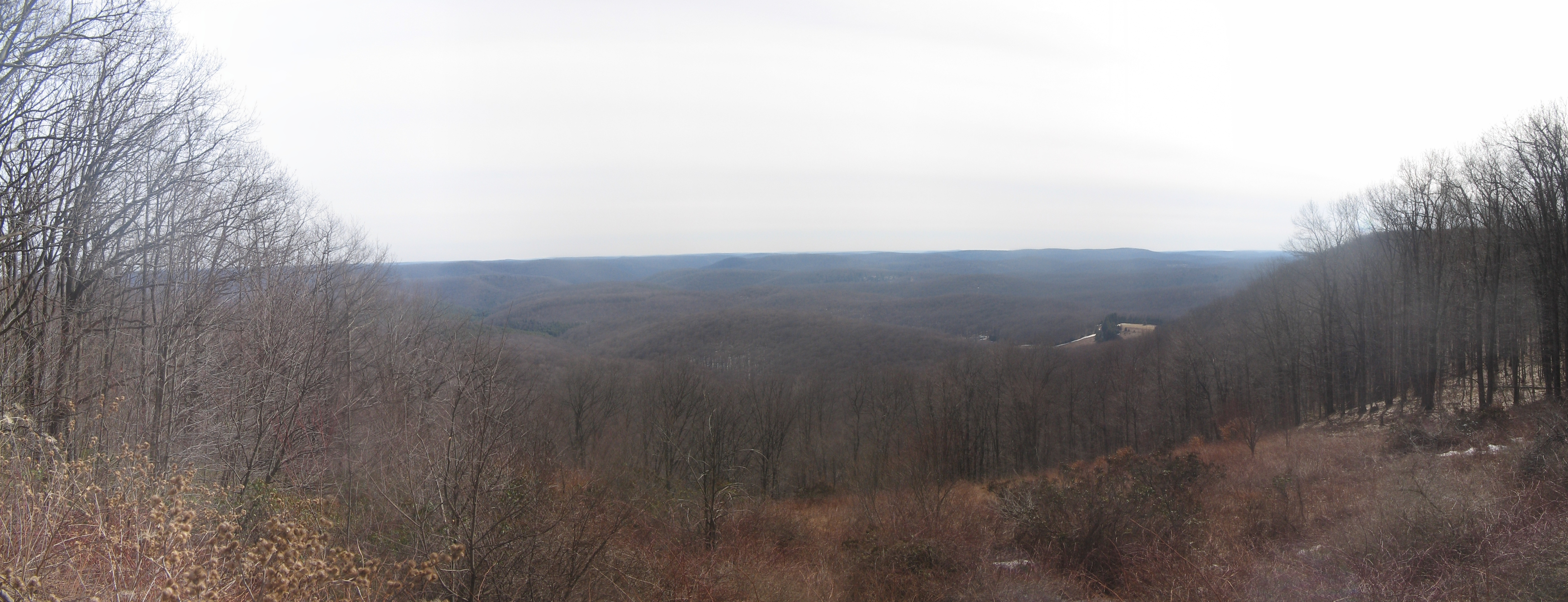 Panoramic view of Susquehannock State Forest from Cherry Springs Vista from Pennsylvania Route 44, looking south from Abbott Township, Potter County, Pennsylvania, USA. This is about 2 miles south of Cherry Springs State Park, near the former Cherry Springs Fire Tower.